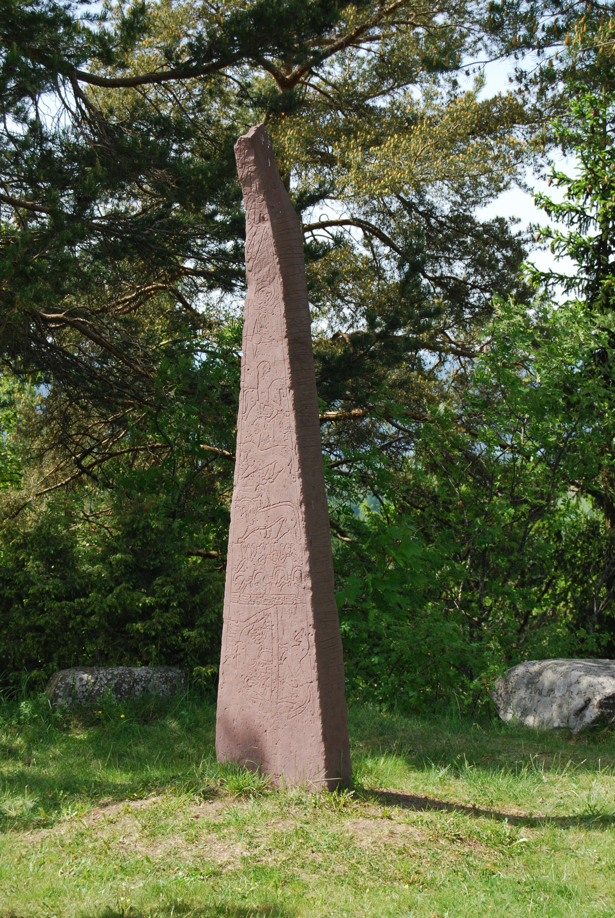 The copy of the Dynna stone runestone at Hadeland Folkemuseum in Gran, Norway. Front and right side.